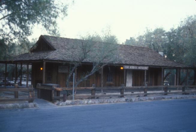 OLDEST BUILDING IN DEATH VALLEY IS THE MUSEUM AT FURNACE CREEK RANCH CONTRUCTED IN 1885 BY F.M. “BORAX” SMITH. IT ORIGINALLY STOOD IN 20 MULE TEAM CANYON AND WAS MOVED HERE IN 1954